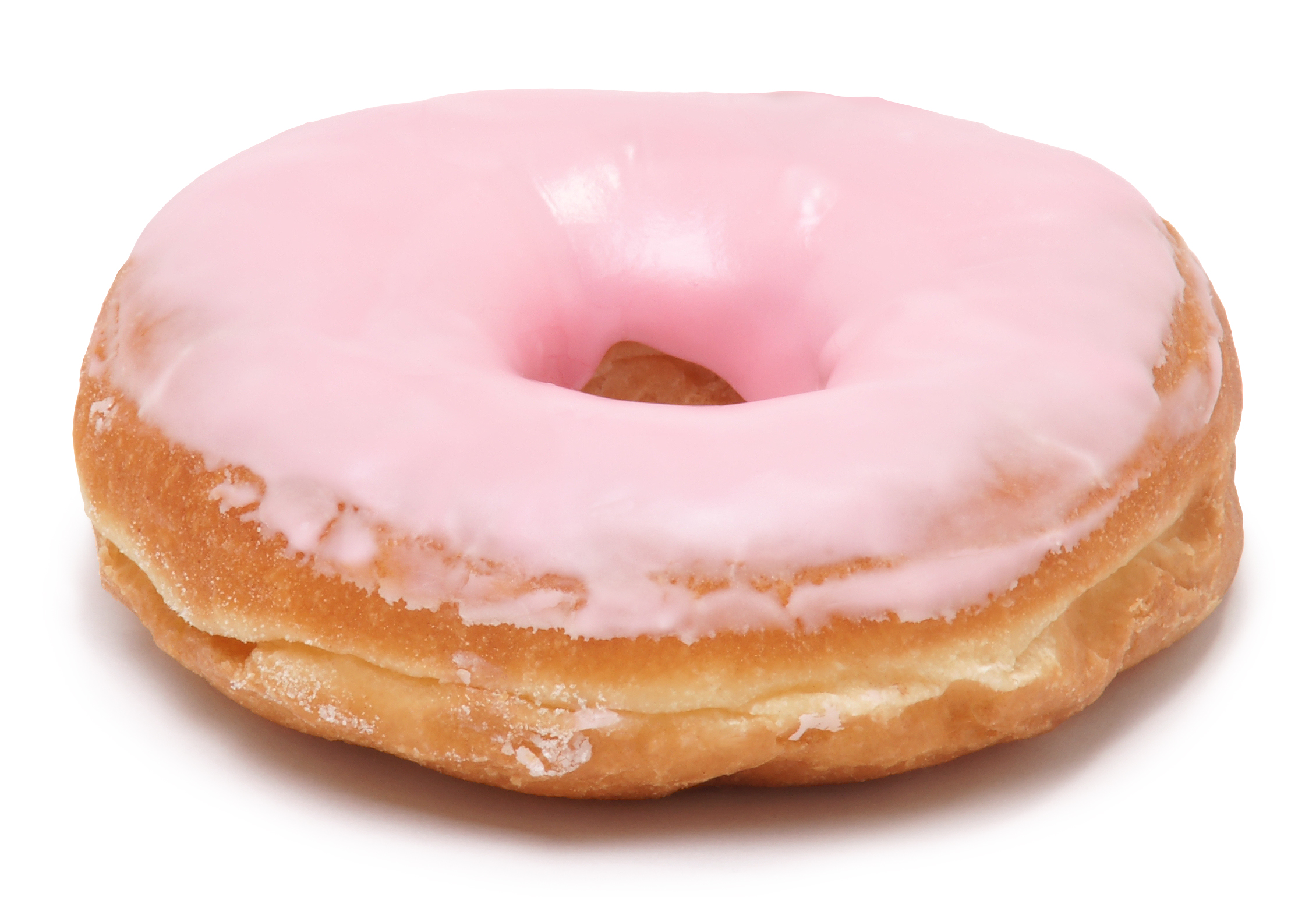 A pink, frosted doughnut bought from a Dunkin' Donuts in Brooklyn.